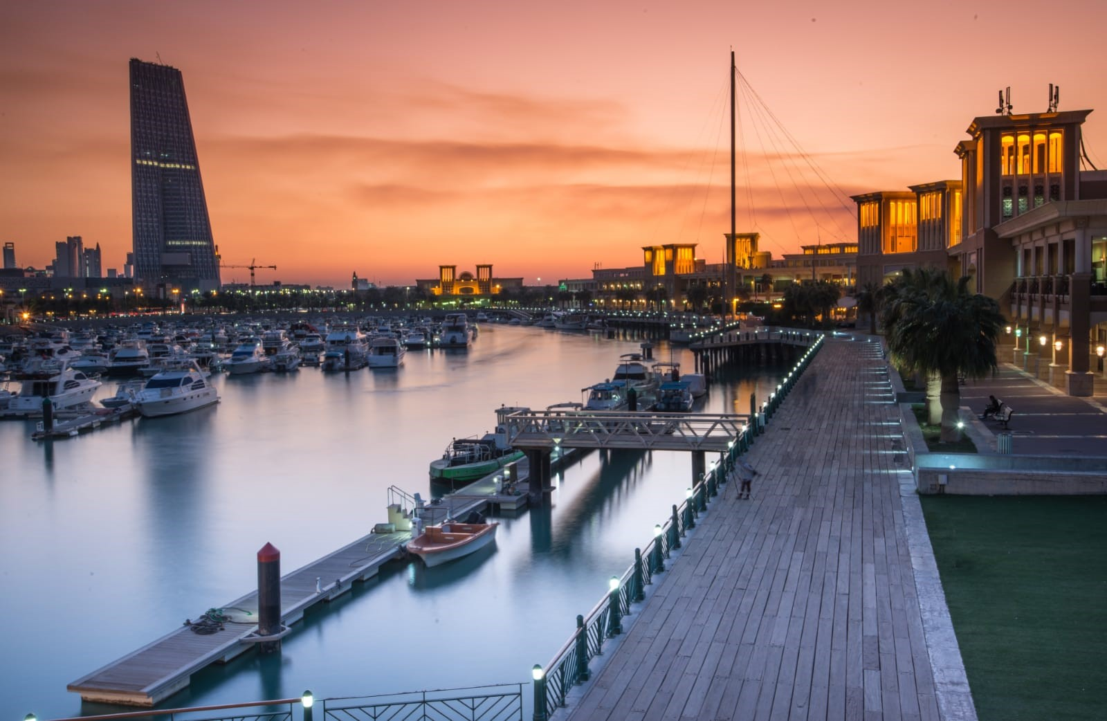 Souq Sharg port sea view